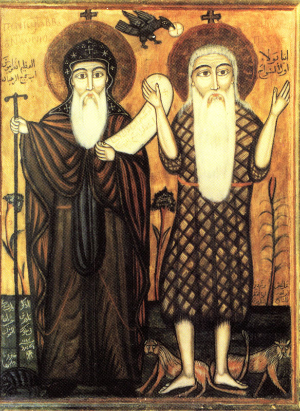 Meeting of sacred Antonija and Pavel. A Coptic icon.